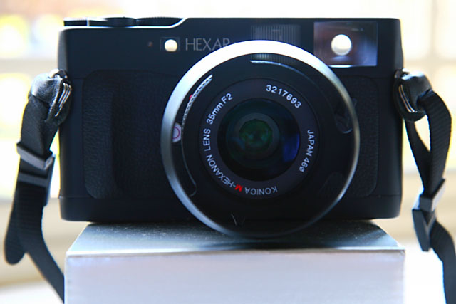 Konica Hexar RF camera with M-Hexanon 35mm f2 lens and vented lens hood fitted.